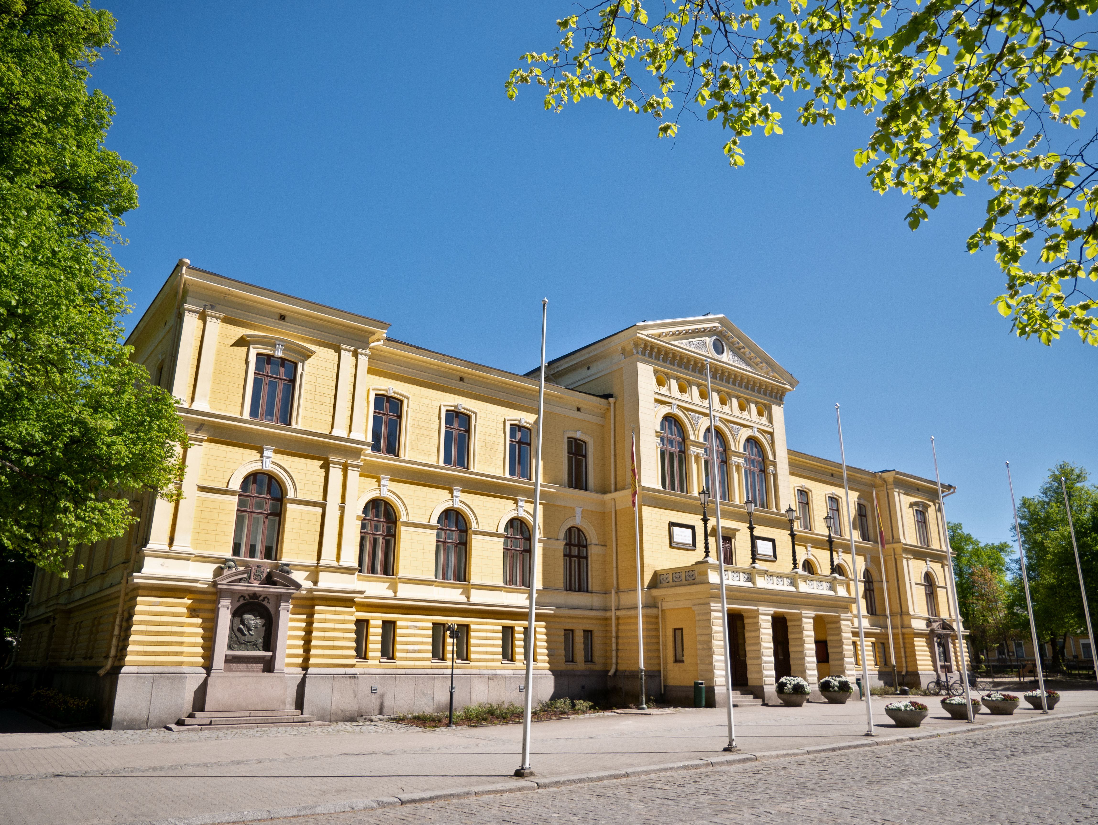 Vaasa town hall.